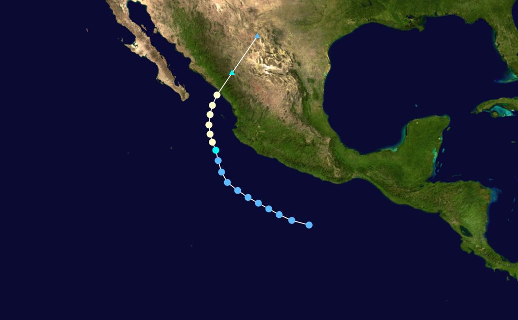 Hurricane Naomi (1968) track. Uses the color scheme from the Saffir-Simpson Hurricane Scale.